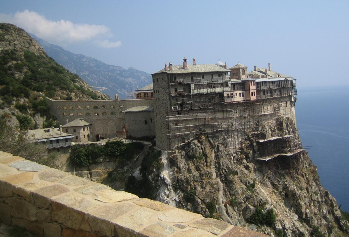 Simonos Petras Monastery, Athos, Greece